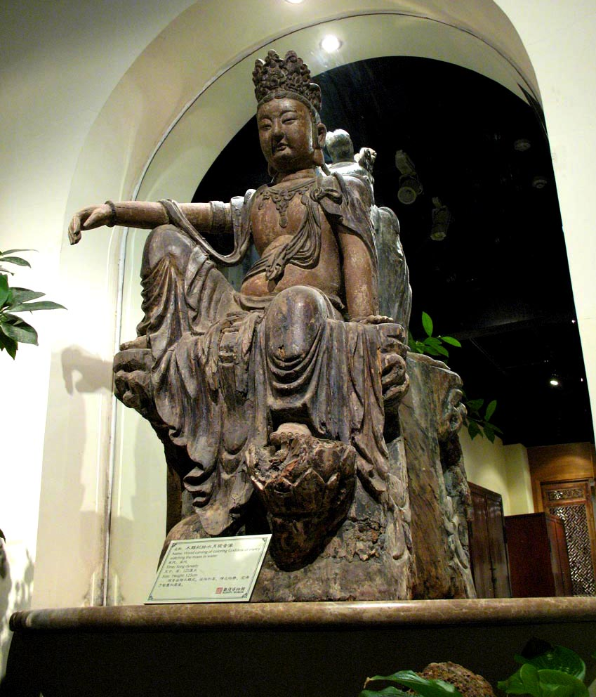 Guan Fu Exhibit